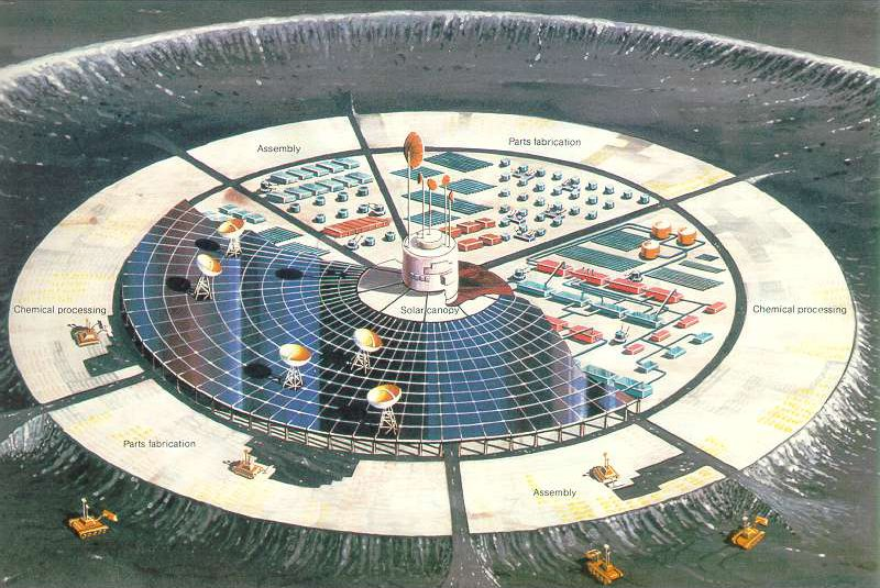 Original caption: "Self-growing lunar factory." An artist's conception of a robotic lunar factory that's capable of self-expansion.